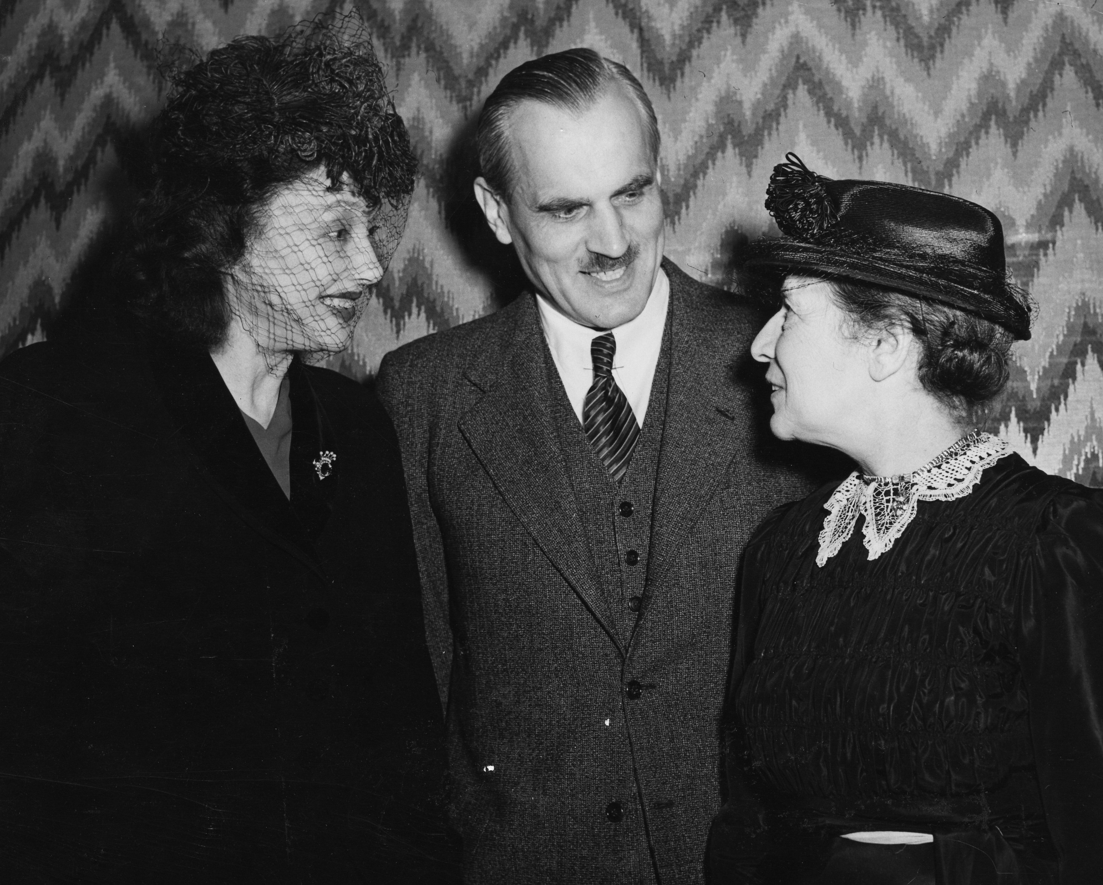 Description: Austrian-born physicist Lise Meitner (1878-1968) is shown here (at right) with actress Katherine Cornell and physicist Arthur H. Compton on June 6, 1946, when Meitner and Cornell were receiving awards from the National Conference of Christians and Jews. Meitner collaborated with Otto Hahn on the discovery of nuclear fission but was overlooked by the Royal Swedish Academy when they gave Hahn the Nobel Prize in chemistry in 1945. Her contribution was formally acknowledged when she received the Fermi Prize in 1966. Creator/Photographer: Arnold Sadow Medium: Black and white photographic print Date: 1946 Persistent URL: [1] Repository: Smithsonian Institution Archives Accession number: SIA2008-1175